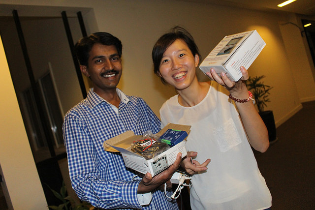 Picture of Ms Hong Phuc Dang at FOSSASIA Science Hack Day